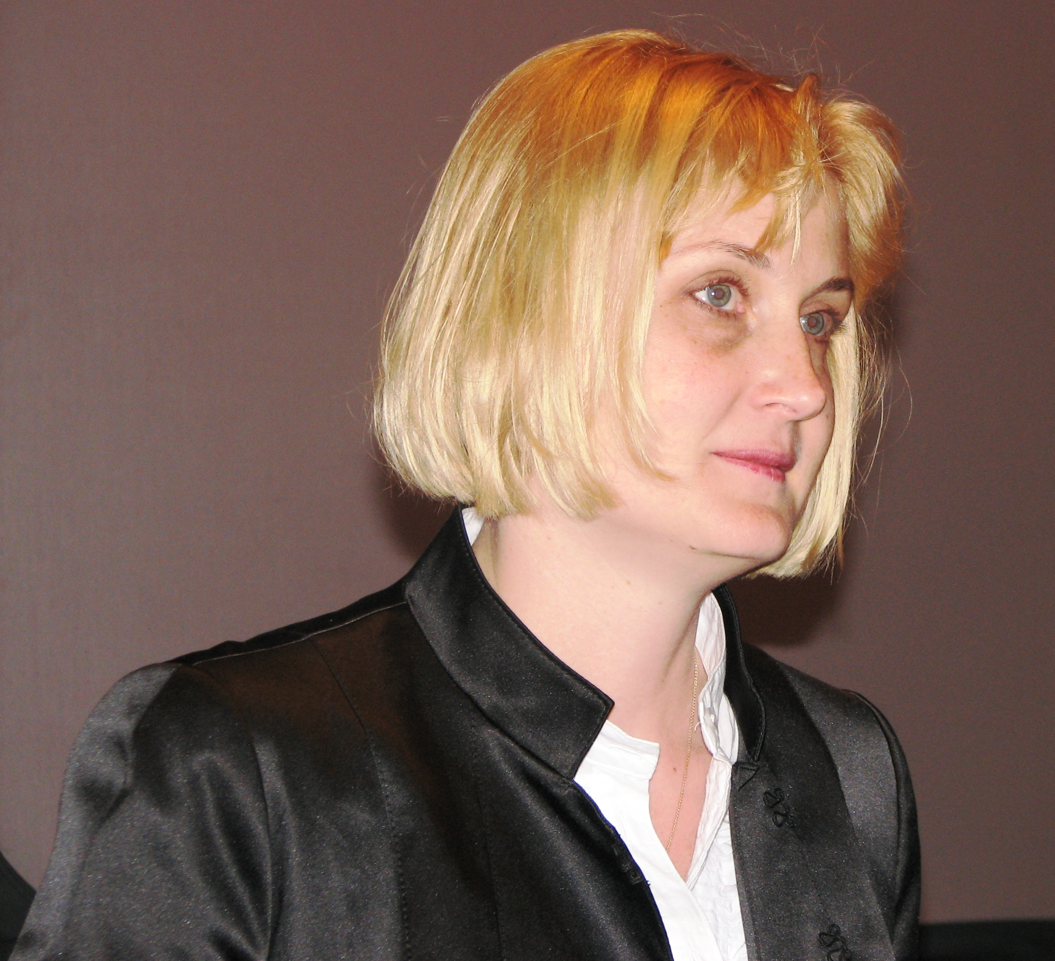 Ilona Martson performing in Baltic Book Fair 2010.